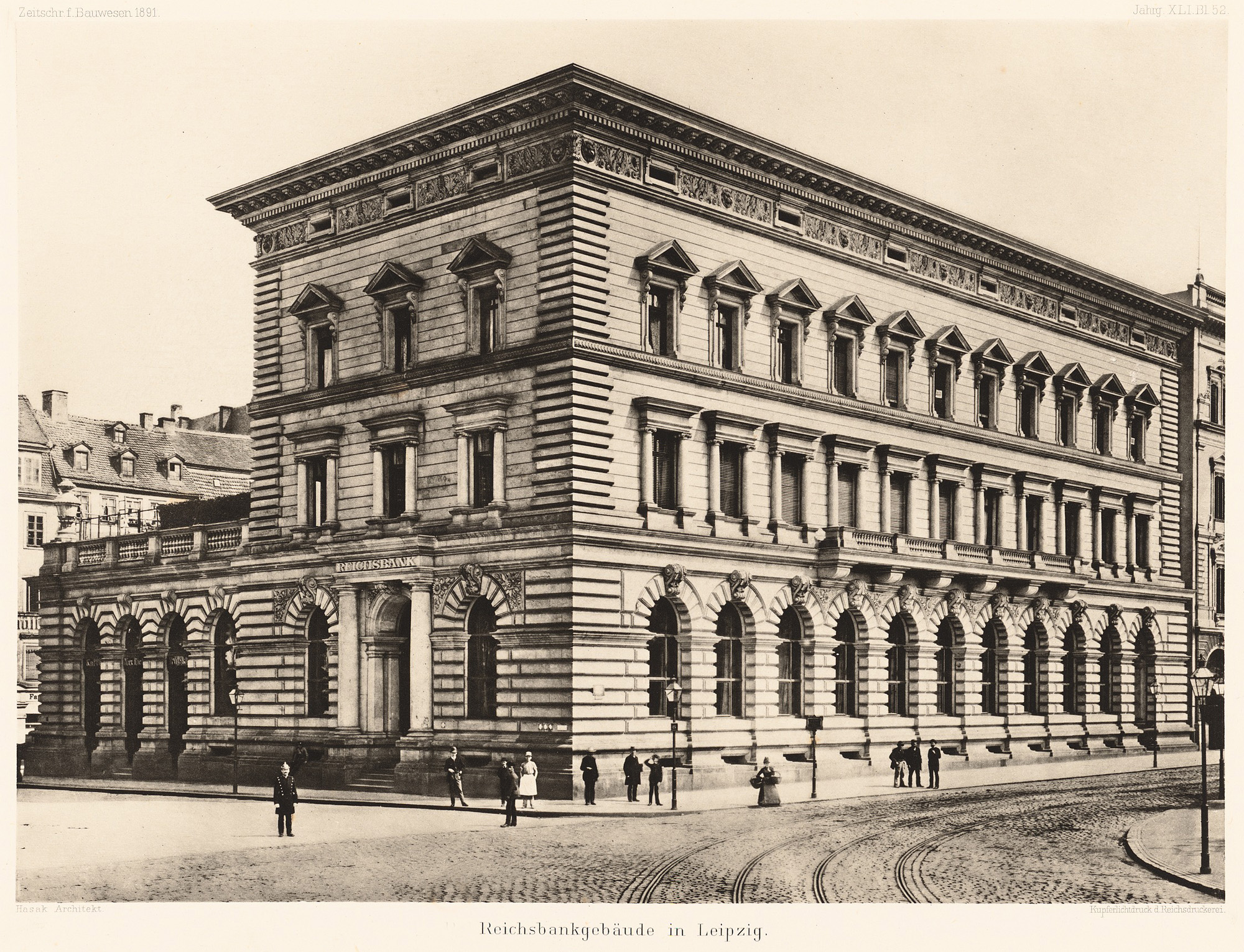 Hasak Max (1856-1934), Reichsbankgebäude, Leipzig. (Aus: Atlas zur Zeitschrift für Bauwesen, hrsg. v. Ministerium der öffentlichen Arbeiten, Jg. 41, 1891): Ansicht. Lichtdruck auf Papier, 29,6 x 46,1 cm (inkl. Scanrand). Architekturmuseum der Technischen Universität Berlin Inv. Nr. ZFB 41,052.